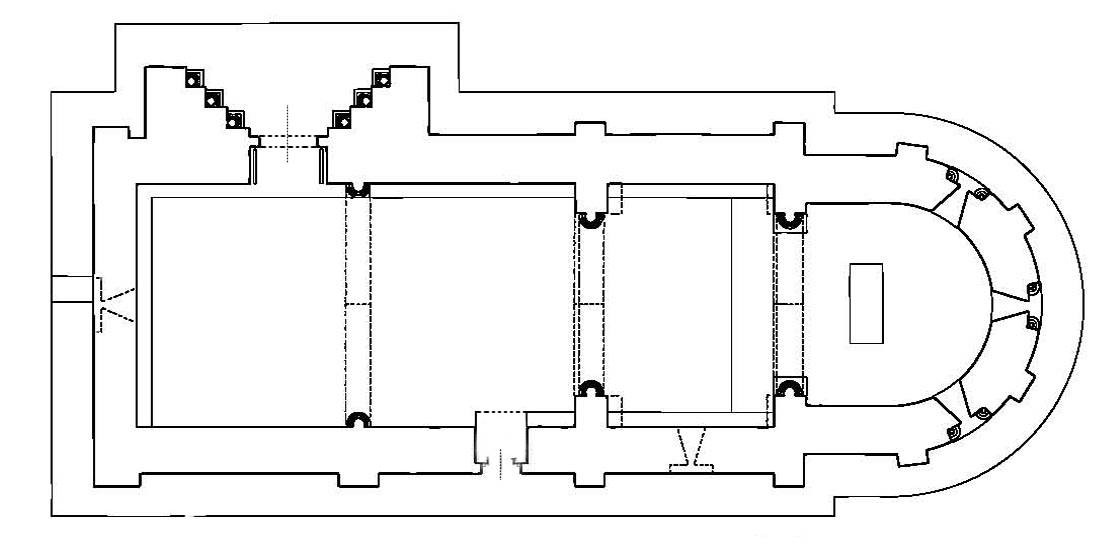 Floor plan of the Church of San Pedro de Etxano